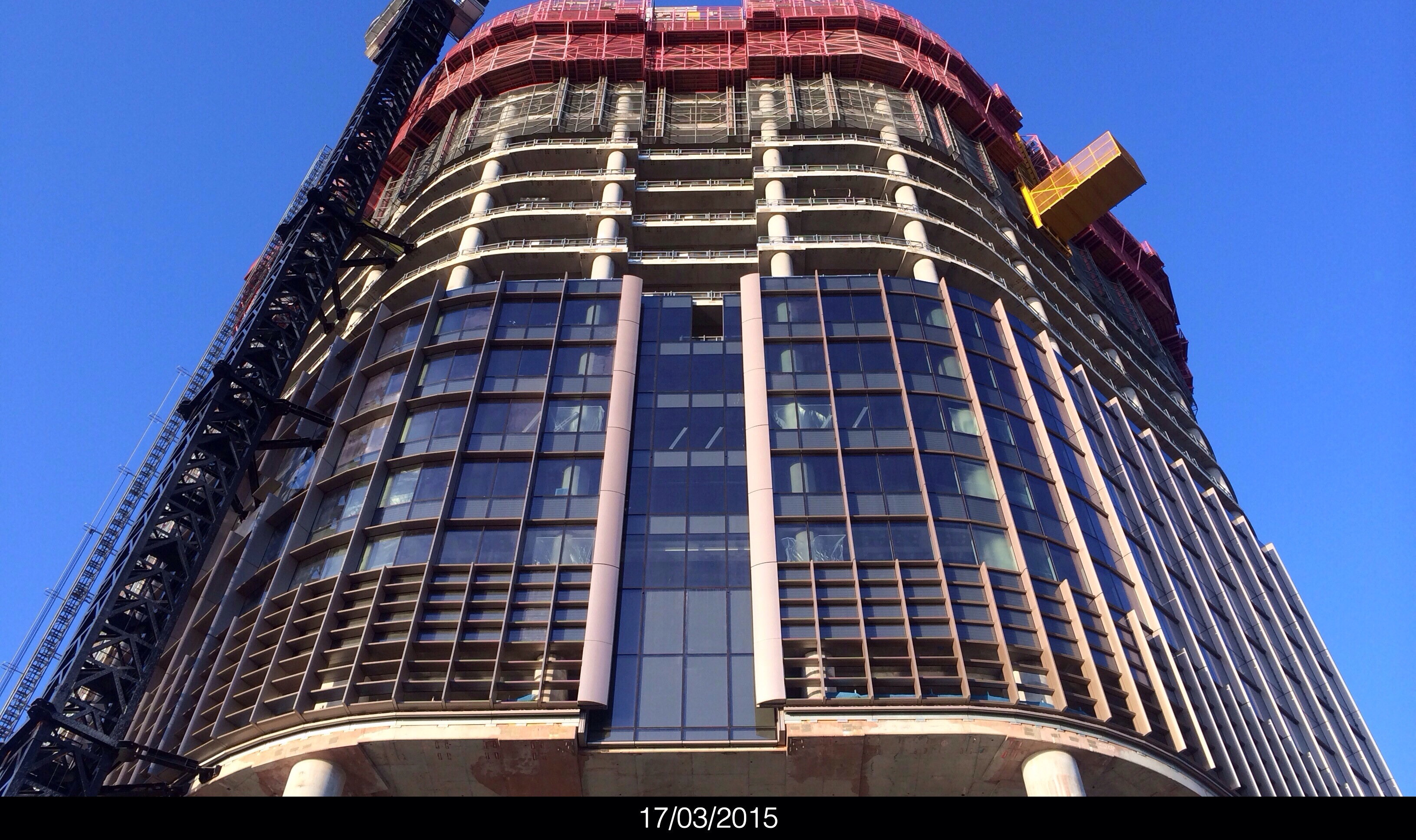 1 William Street, Brisbane, under construction in March 2015